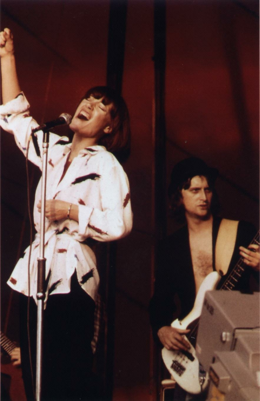 Phil Curtis Live Hyde Park 1976